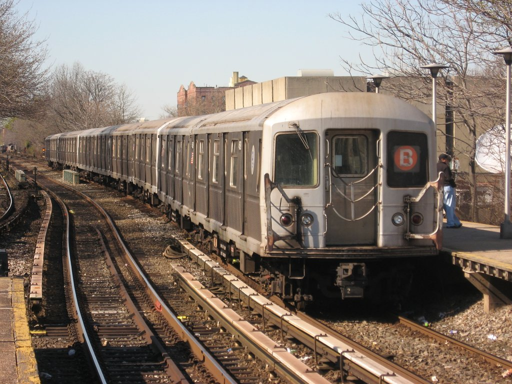 A B train leaving the Kings Highway subway station, bound for the Bronx.